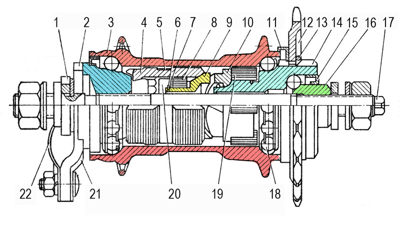 Torpedo back pedal brake